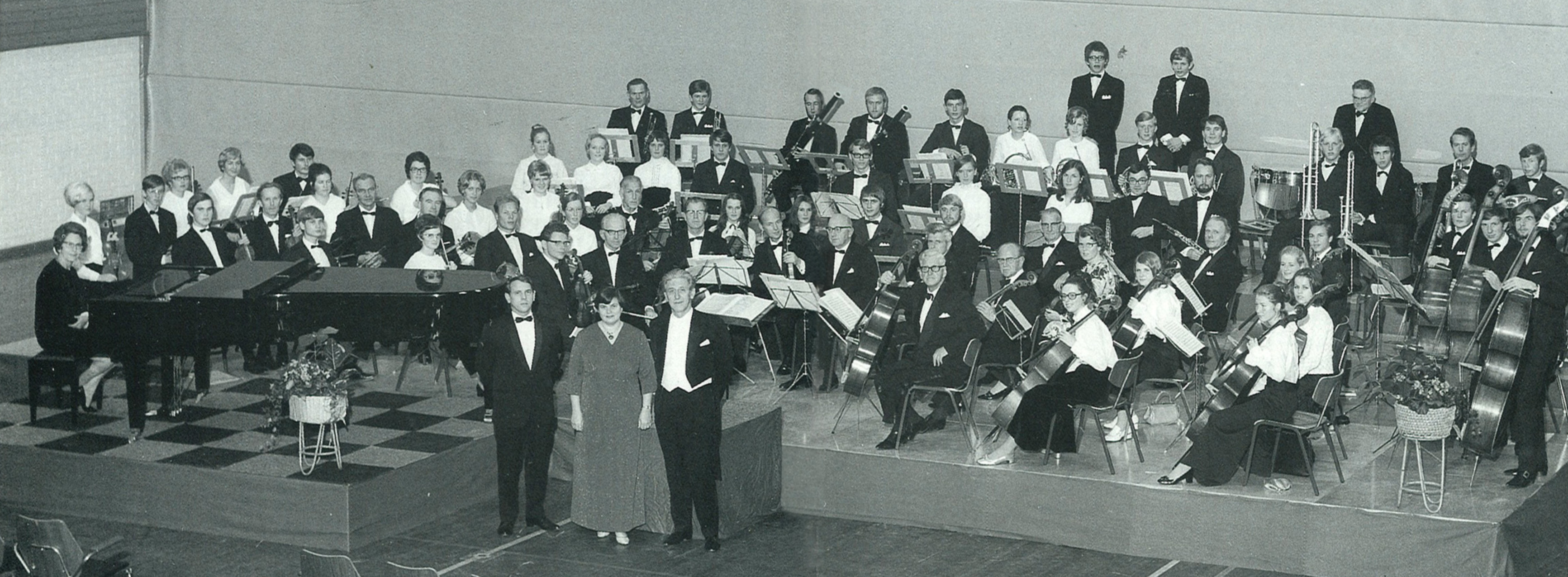 75 year anniversary for the orchestra Sandnes Orkesterforening, Sandnes, Norway. In front, from left to right: Kåre Opdal, Eva Knardahl (pianist), Finn Audun Oftedal (conductor)